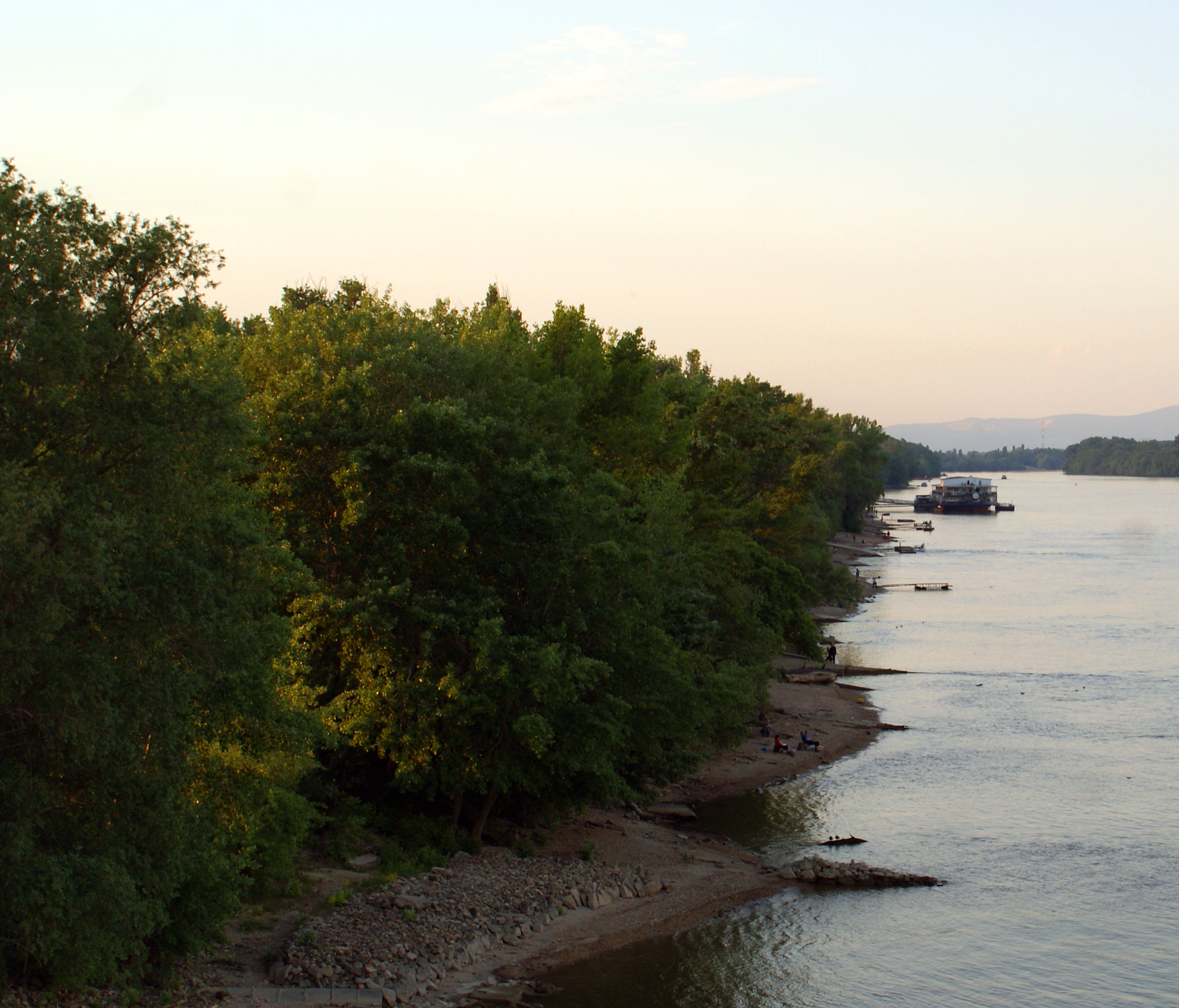 Római Part Danube riverside, facing north. Picture taken from the railway bridge.